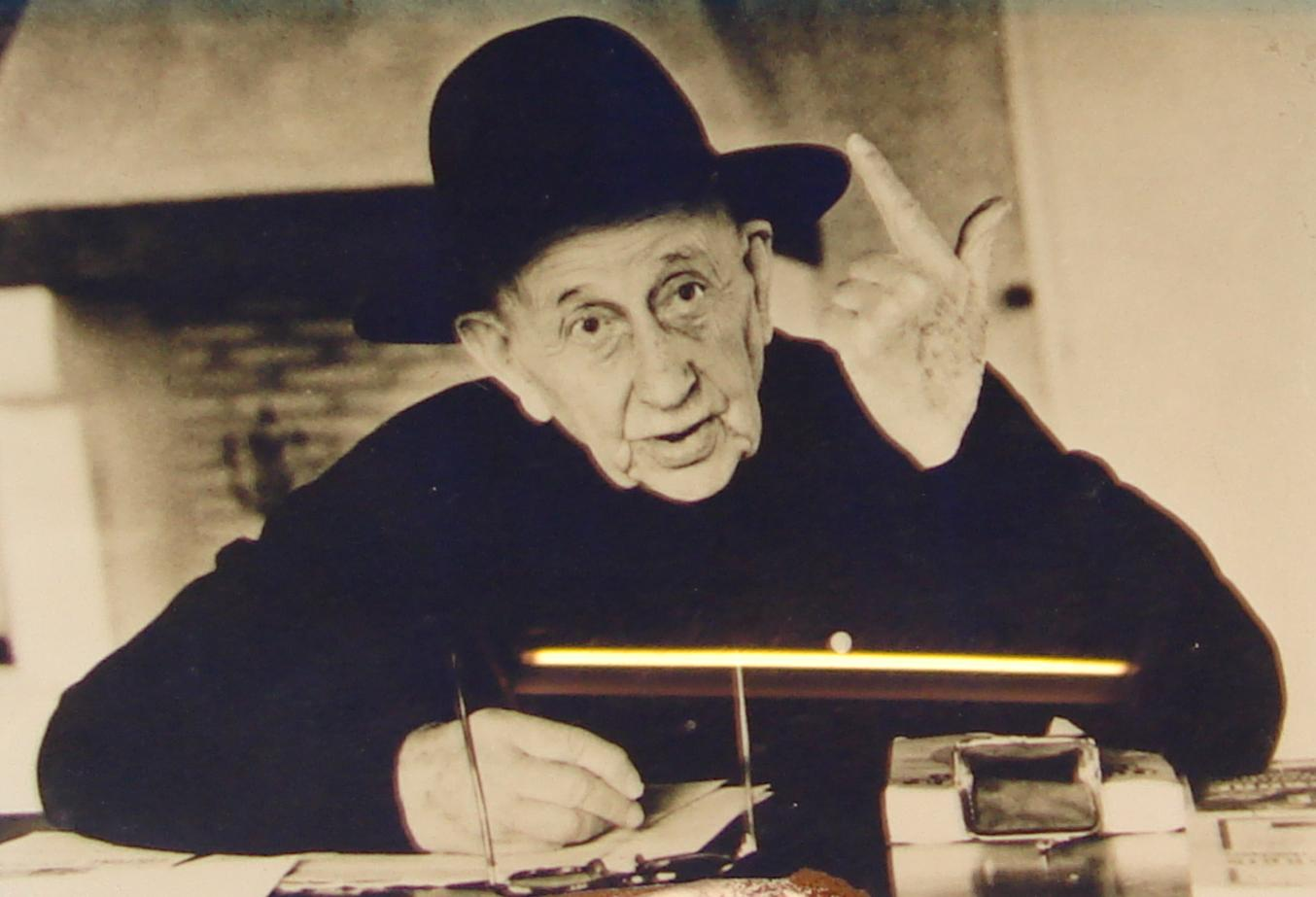 Raoul Lemaire, one of the founders of organic agriculture in France